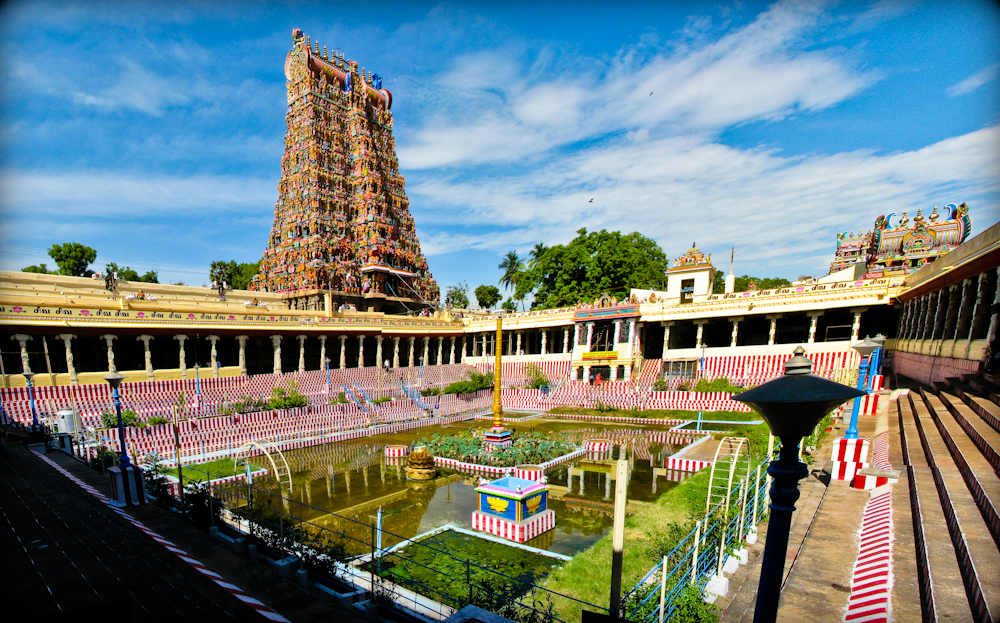 This is the Tank at the Meenakshi-Sundareswarar temple, Madurai